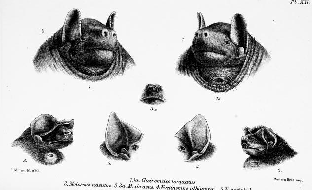 An illustration of male and female bulldog bats (Cheiromeles torquatus), the black bonneted bat (Eumops auripendulus, formerly Molossus abrasus), and the brown mastiff bat (Promops nasutus, formerly Molossus nasutus). Some bats have a gular/gular-thoracic gland